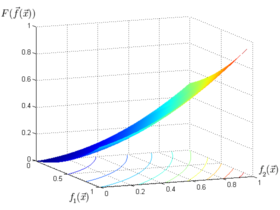 General utility for Desicion Making. Polinomial one.